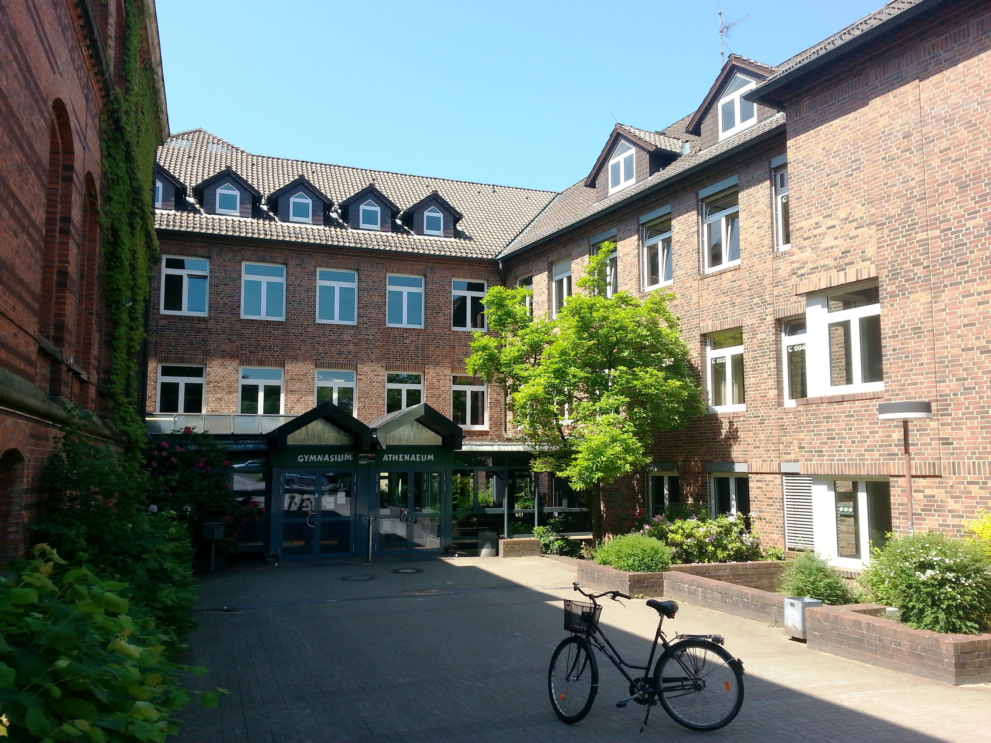 The Gymnasium Athenaeum (i.e. Athenaeum grammar school), established in 1588, in Stade, Lower Saxony, Germany. Neubau part (i.e. new building; built in 1981/1982, including chemistry rooms and the library) with its eastern (main entrance) and southern façade, opposed to the northern façade of the Altbau northern wing.